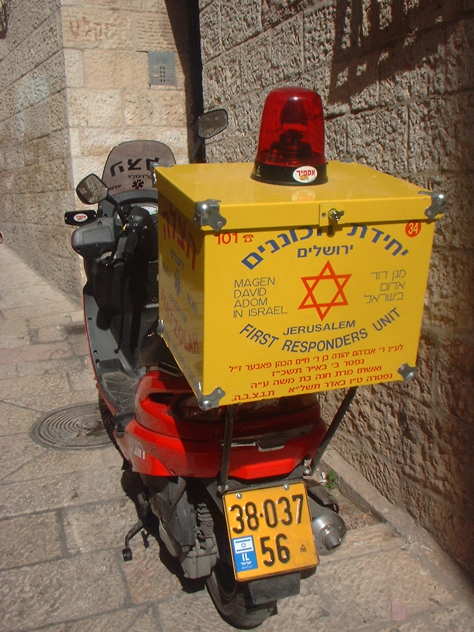 A first responder unit of Magen David Adom in the old city of Jerusalem, 5 Or Ha-Hayim street. The ambucycle is owned and operated by Hatzolah Israel.